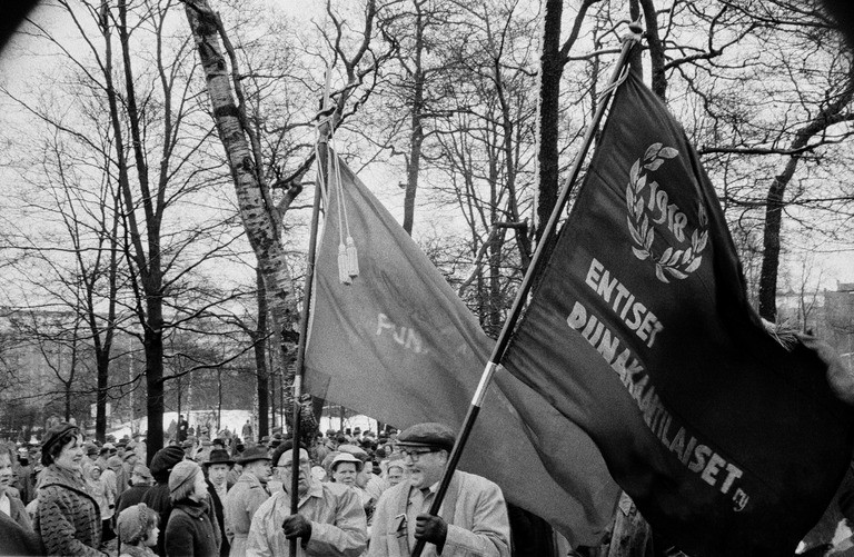 Finnish Red Guard veteran organization Entiset Punkaartilaiset on 1957 May Day parade in Helsinki.